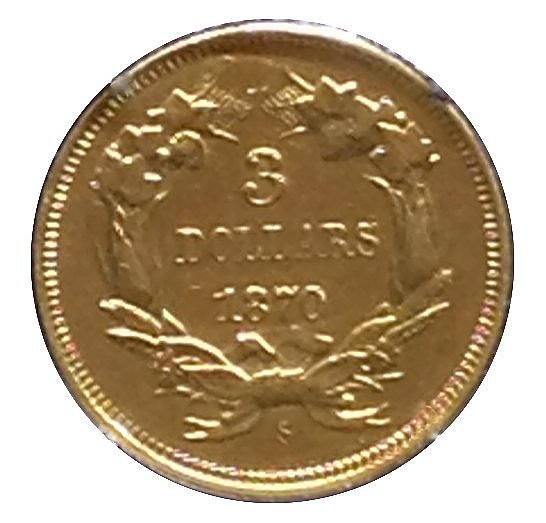 obverse of the three-dollar coin (dated 1854 on other side)